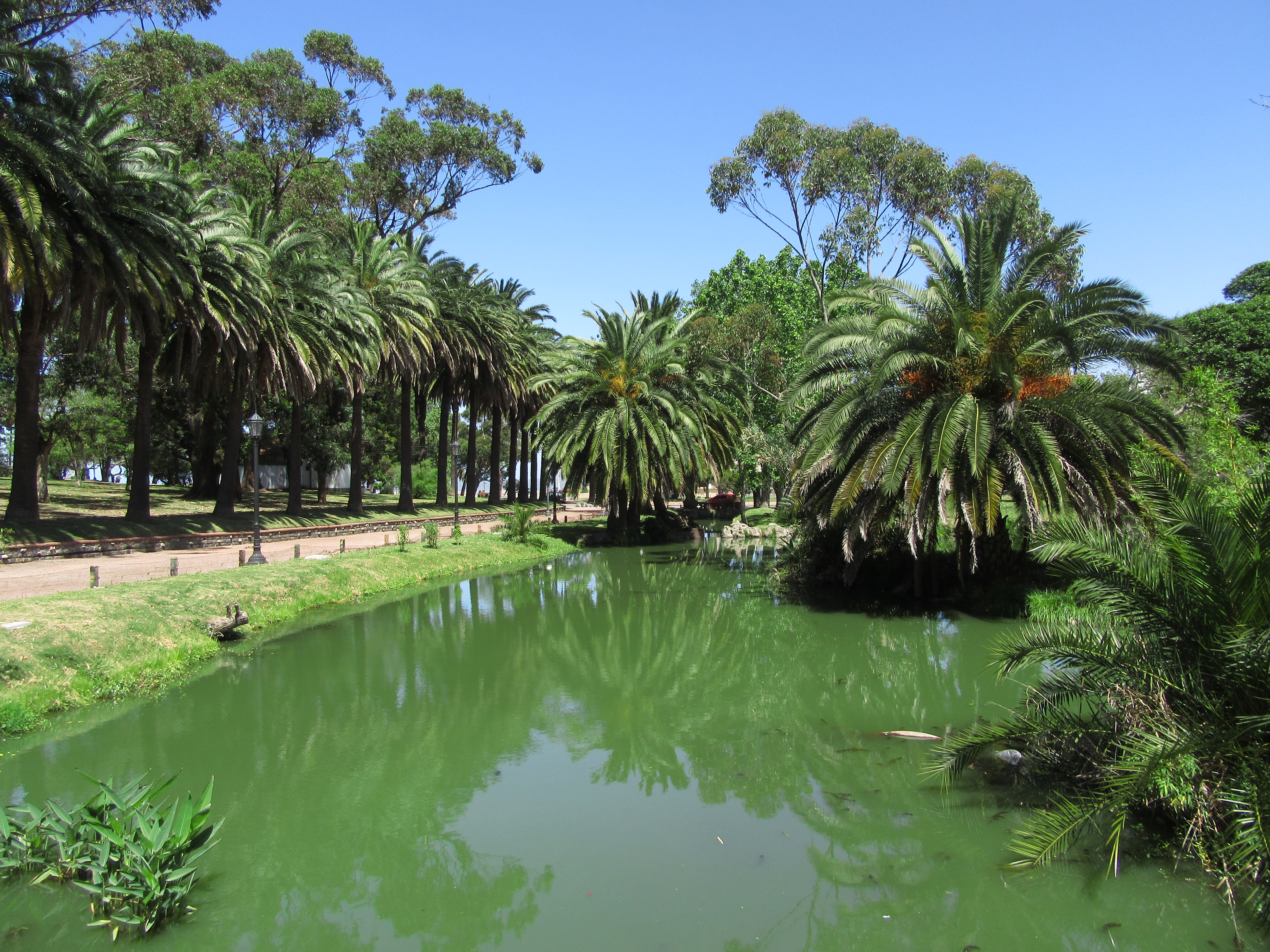 Montevideo